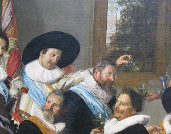 Ensign Loth Schout reaches over the head of Johan Damius to trade his empty glass for a filled one, detail of Officers of the St. Adrian Civic Guard, 1627, Haarlem This image is available from the Netherlands Institute for Art Historyunder digital ID 11012. This tag does not indicate the copyright status of the attached work. A normal copyright tag is still required. See Commons:Licensing.